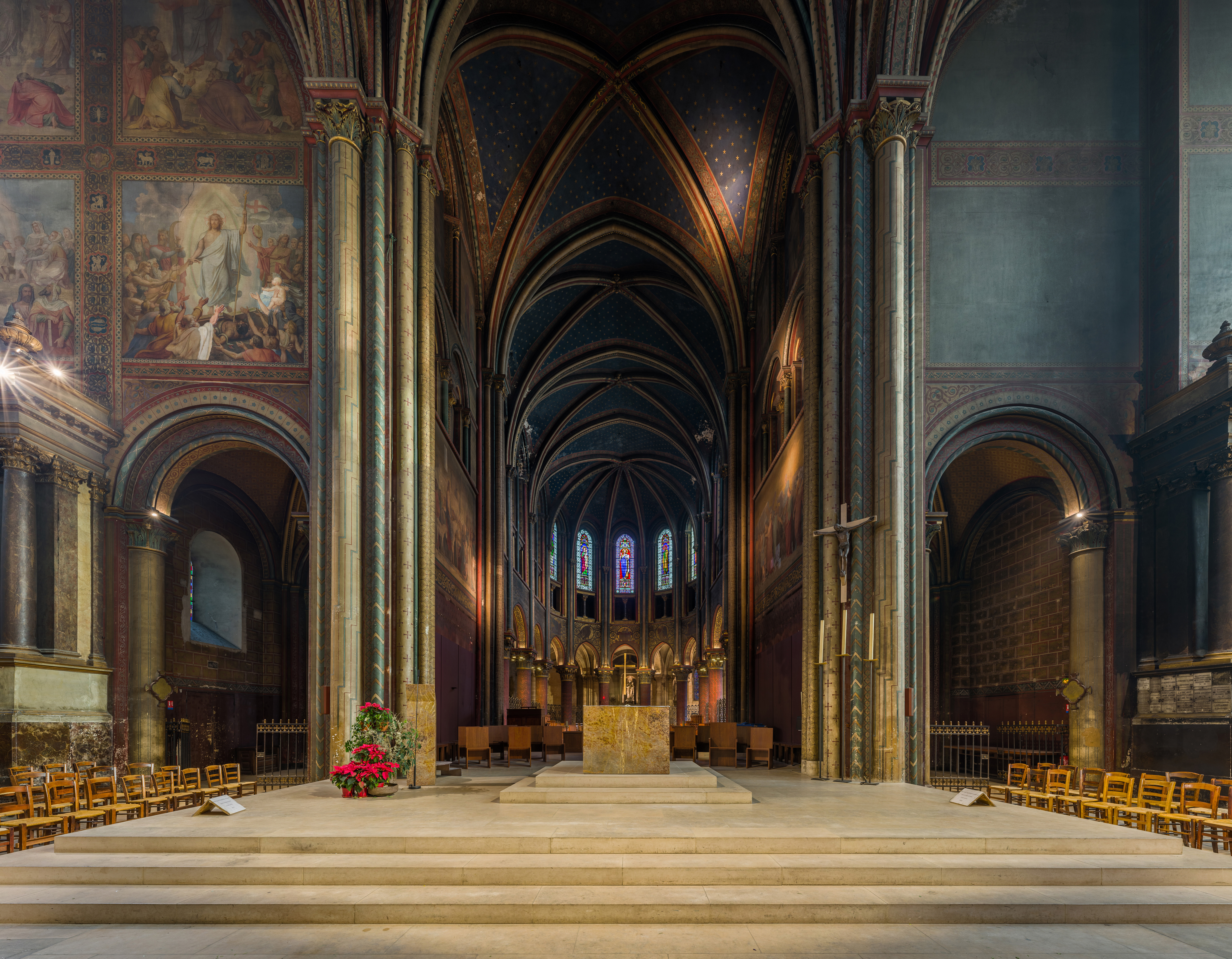 The sanctuary of Abbaye de Saint-Germain-des-Prés in Paris, France.